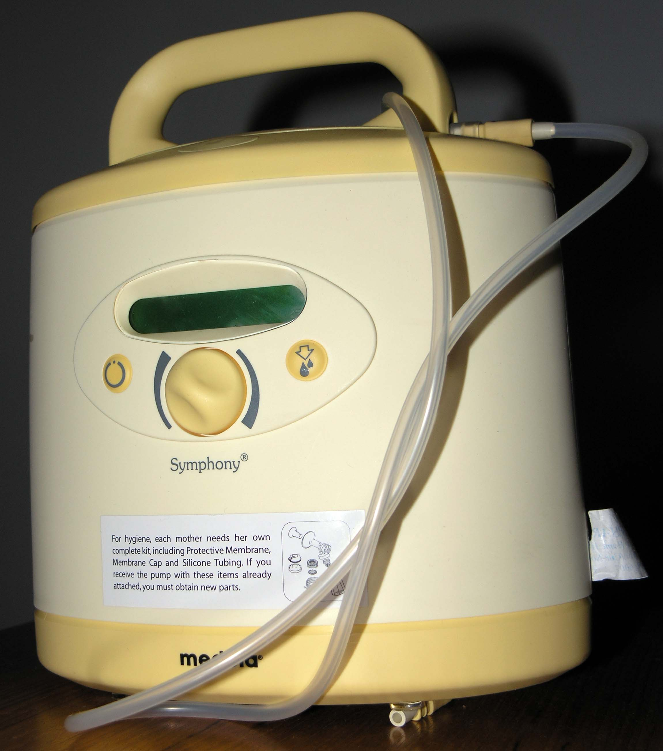 An electric breast pump.